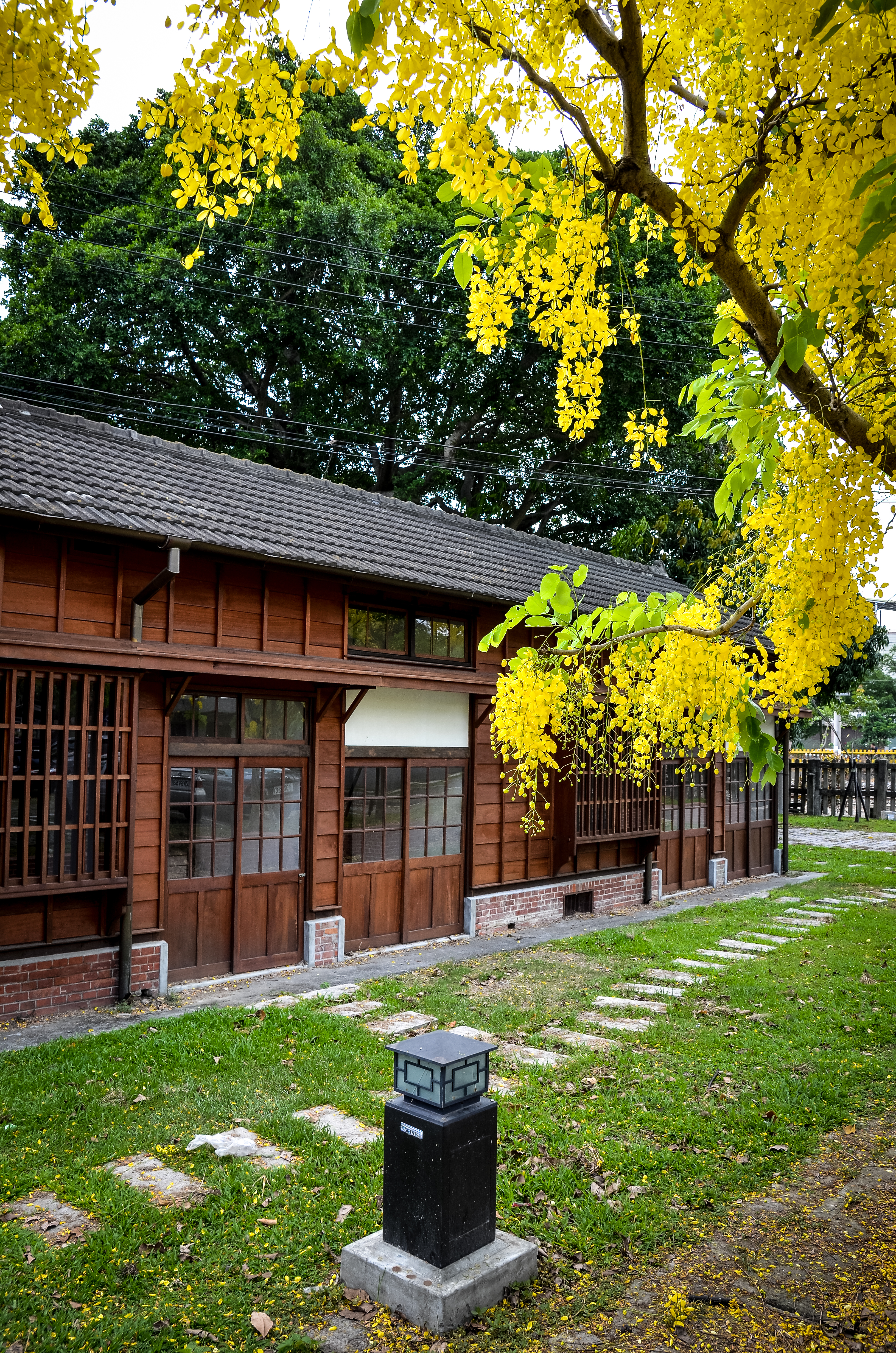 Station Master's Residence, Taiwan Railways Administration, Dalin, Taiwan.